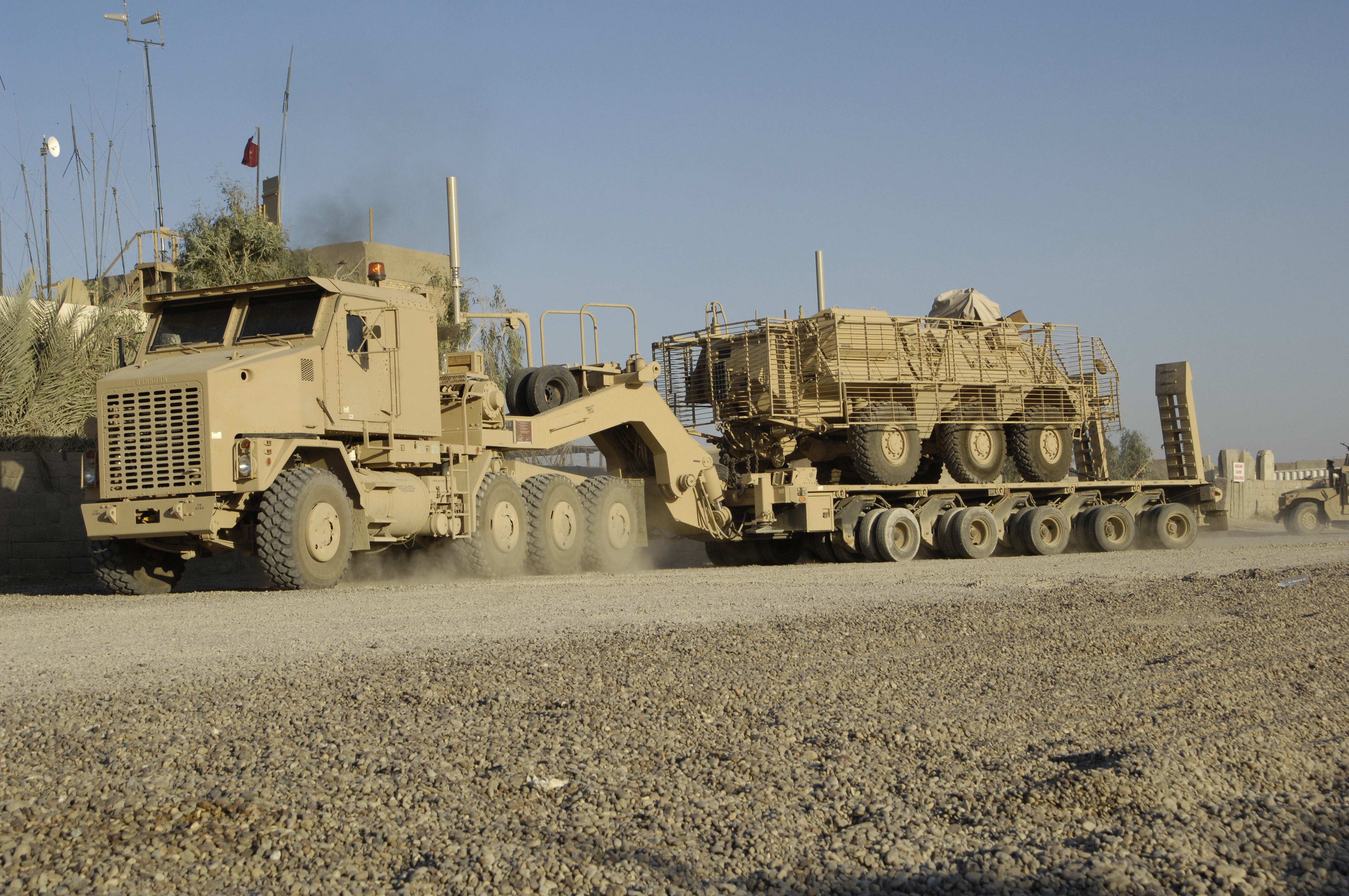 A Fox nuclear, biological and chemical detection vehicle is transported by a heavy equipment transportation system trailer near Baghdad, Iraq, July 4, 2007.